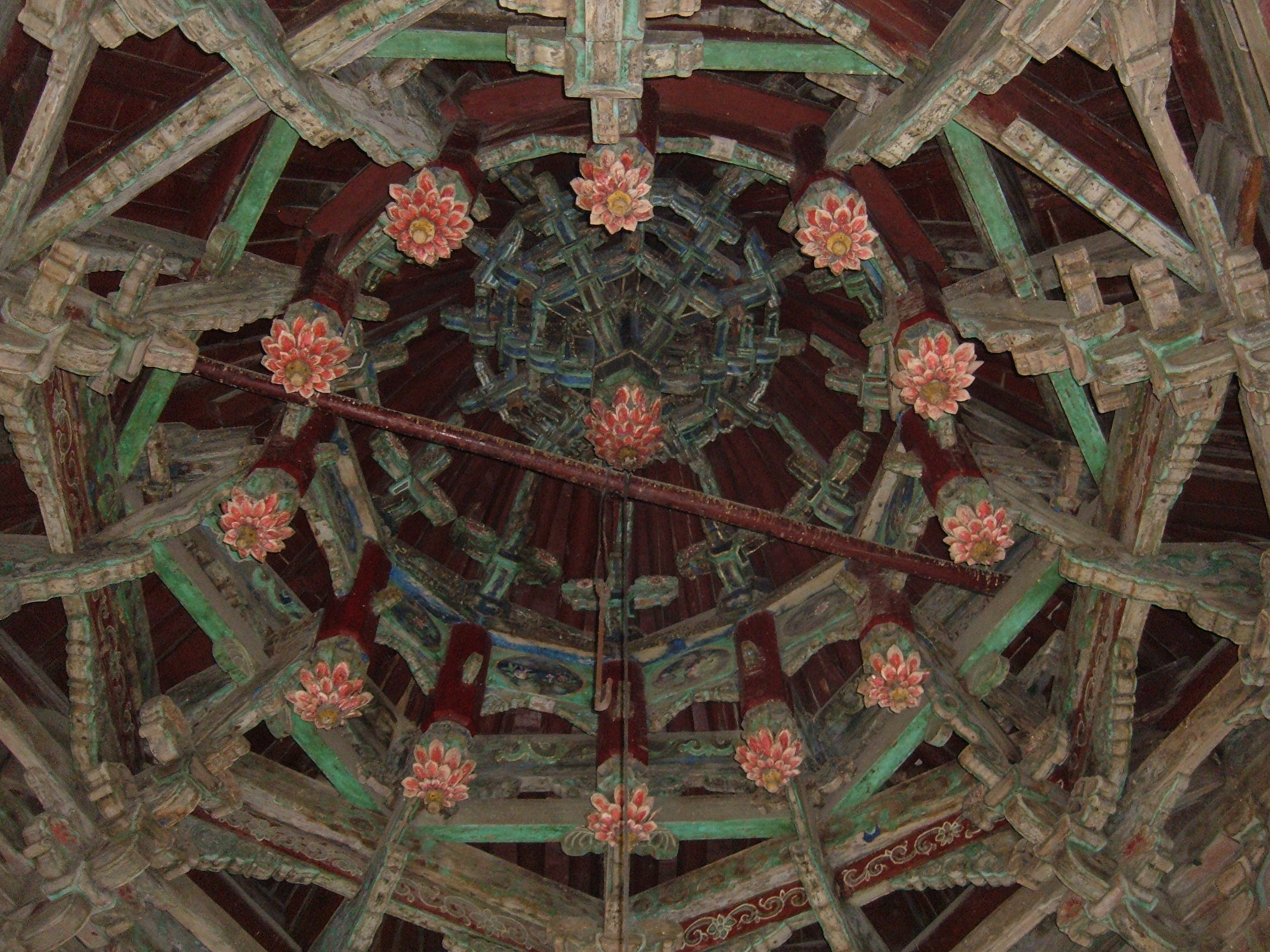 The ceiling of a pavilion of the Great Mosque of Xi'an — in Xi'an, PRC.